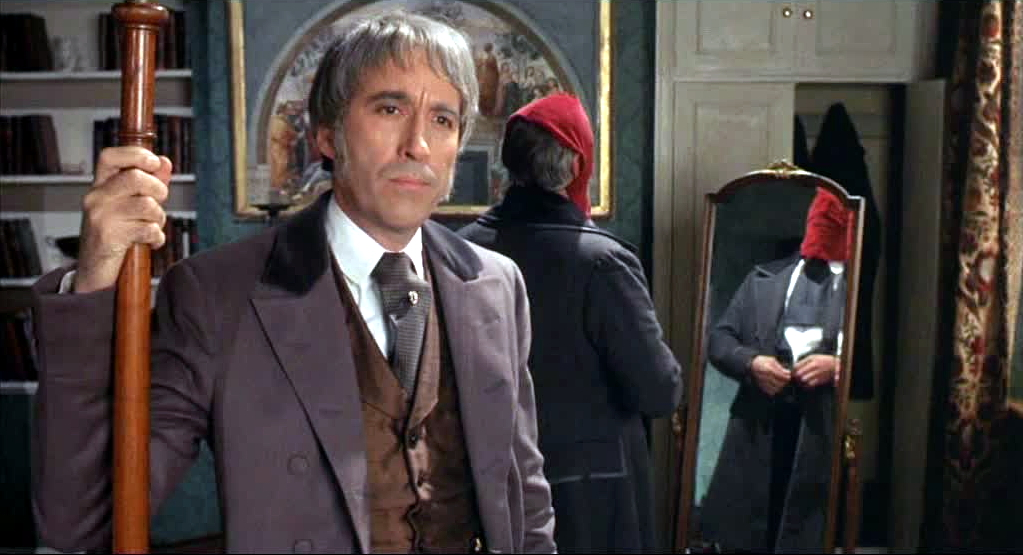 Screenshot of Christopher Lee from the film Oblong Box